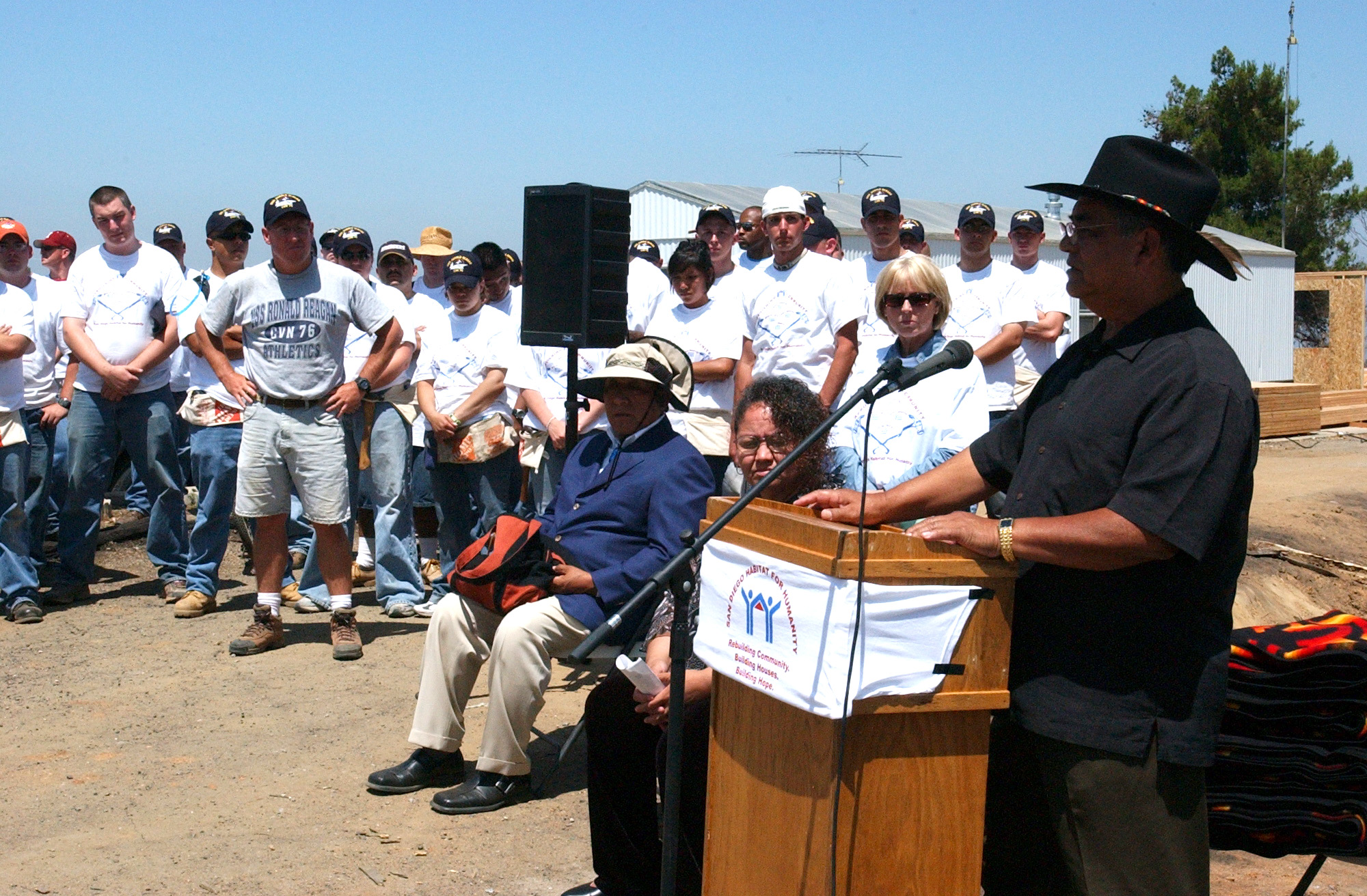 San Diego, Calif. (June 23, 2004) – Nimitz-Class aircraft carrier USS Ronald Reagan (CVN 76) Sailors watch as San Pasqual Tribal Chairman Allen Lawson, welcomes guests to the media availability for a Habitat for Humanities project, “Blitz Build.” U.S. Navy photo by Deris Jeannette (RELEASED)